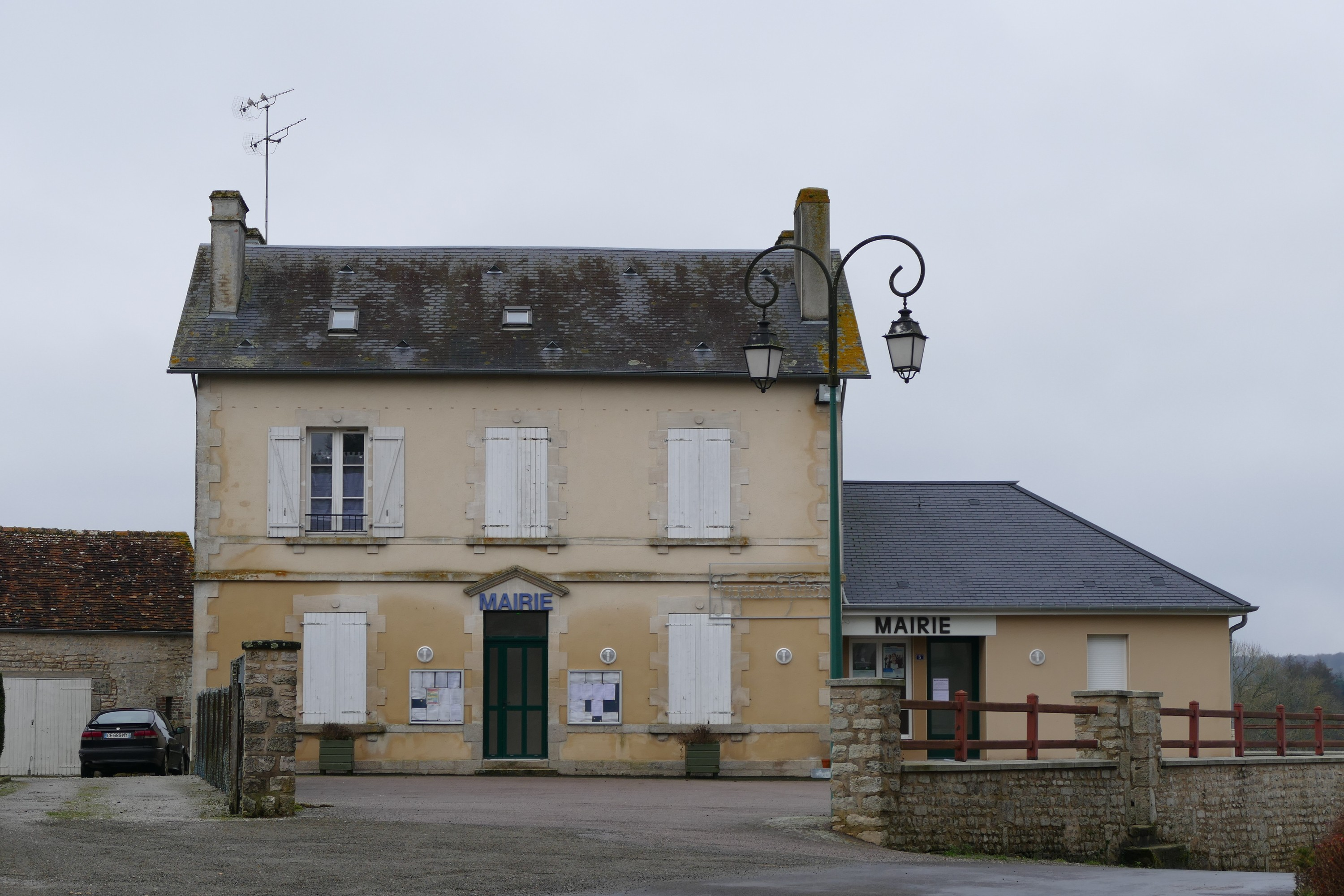 The city hall in La Chapelle-près-Sées (Orne, Normandie, France).